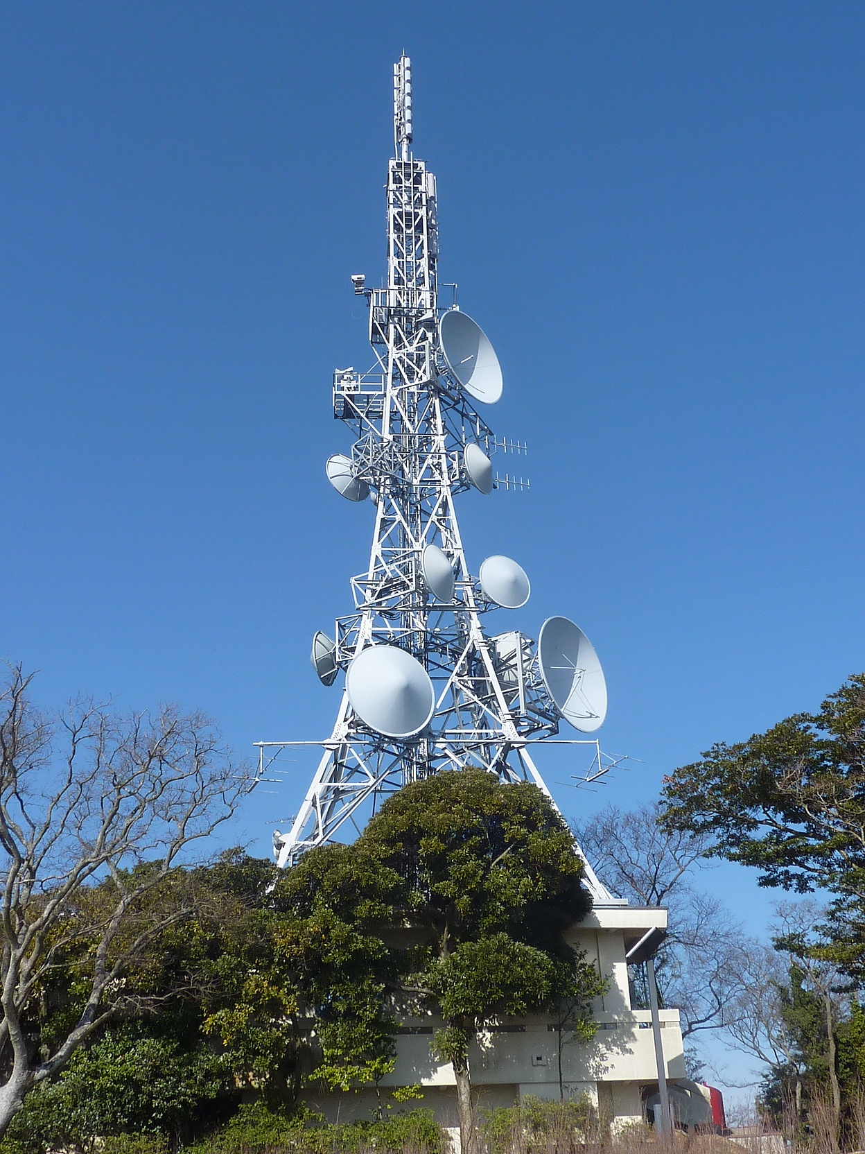 NHK, tys (TV Yamaguchi), and FMY (FM Yamaguchi) Shimonoseki Transmitting Station (Shimonoseki City, Yamaguchi, Japan